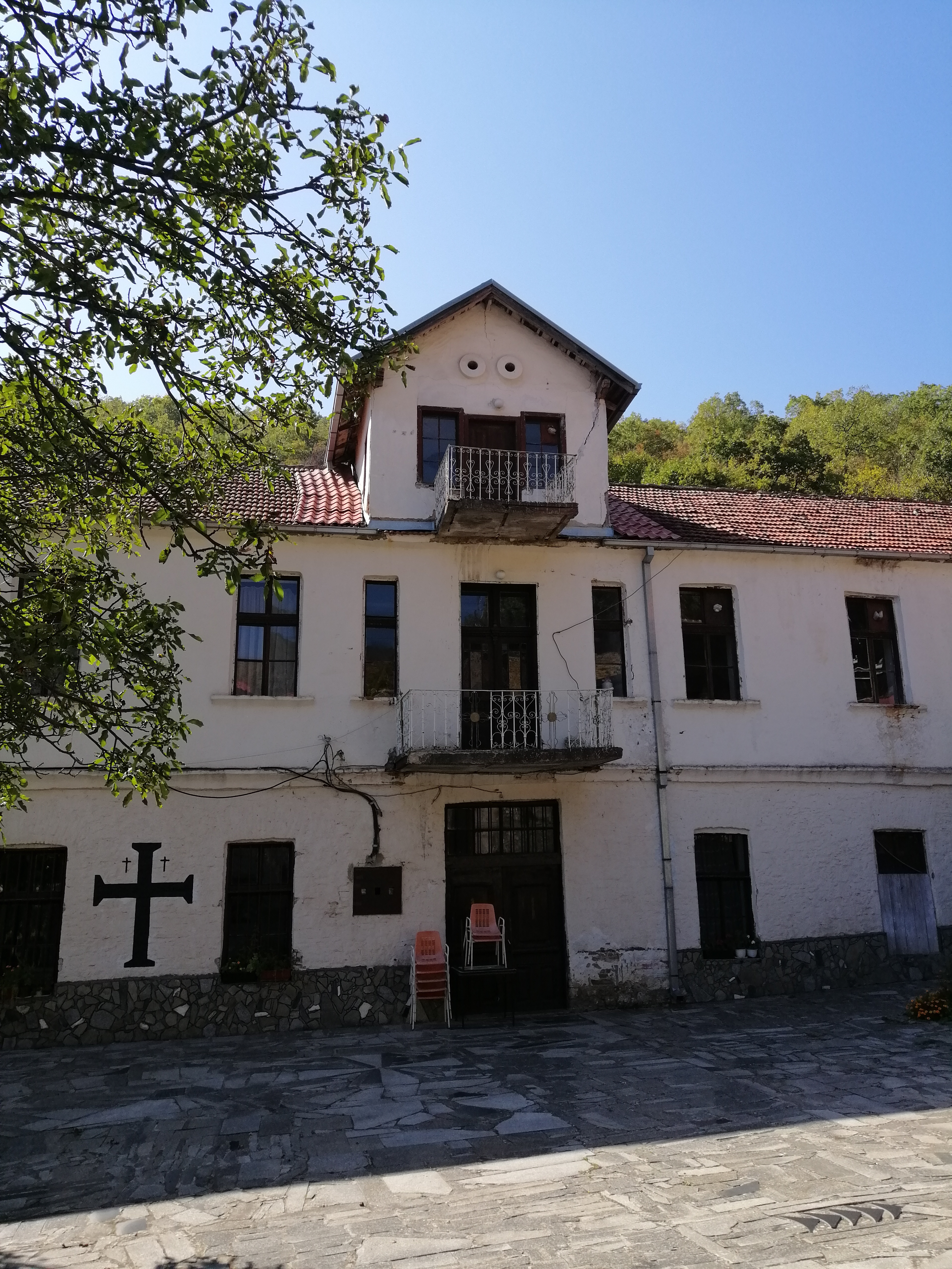 View of the Pobožje Monastery